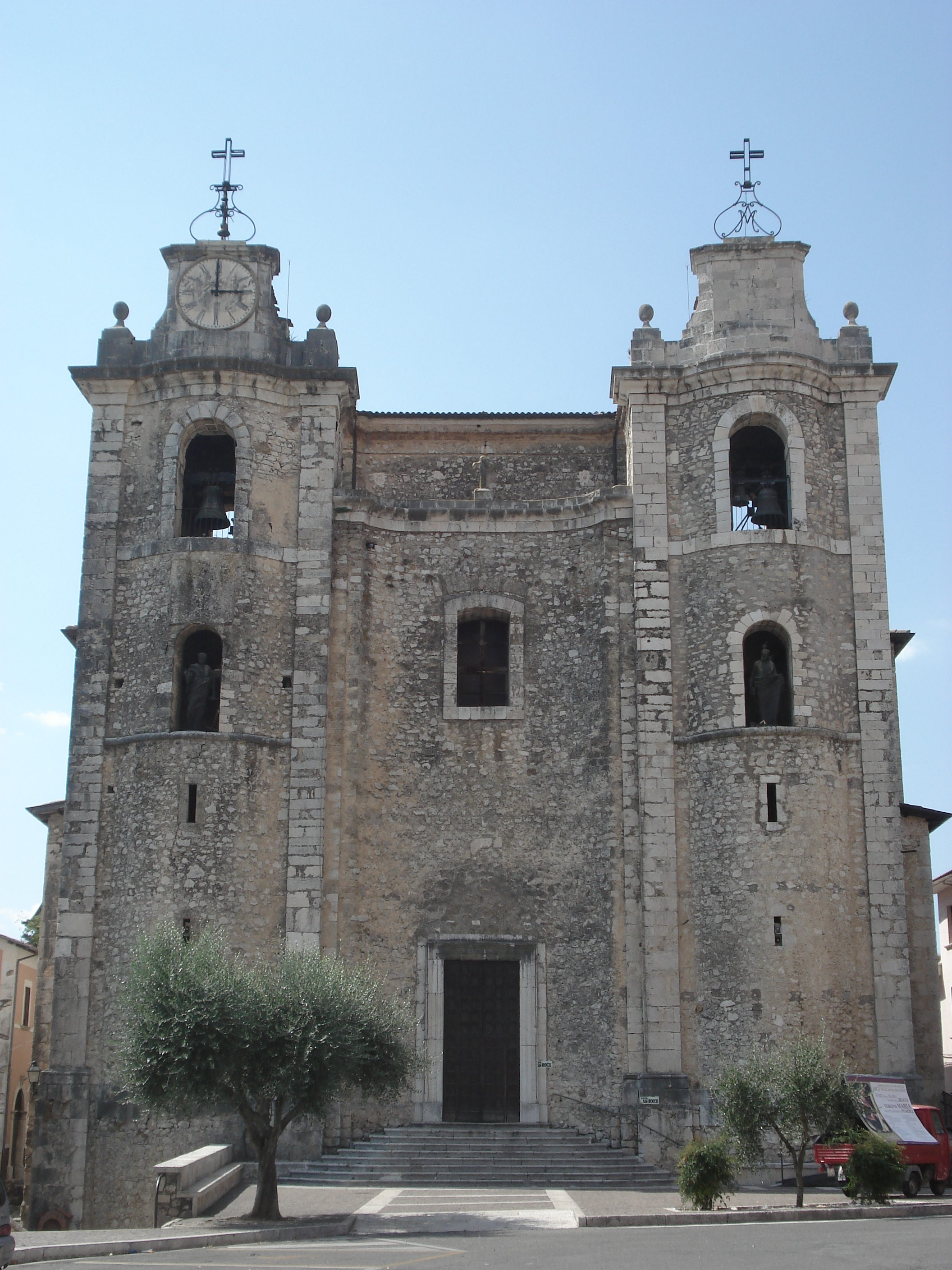 Façade of the parish Church of Arce, in Italy.